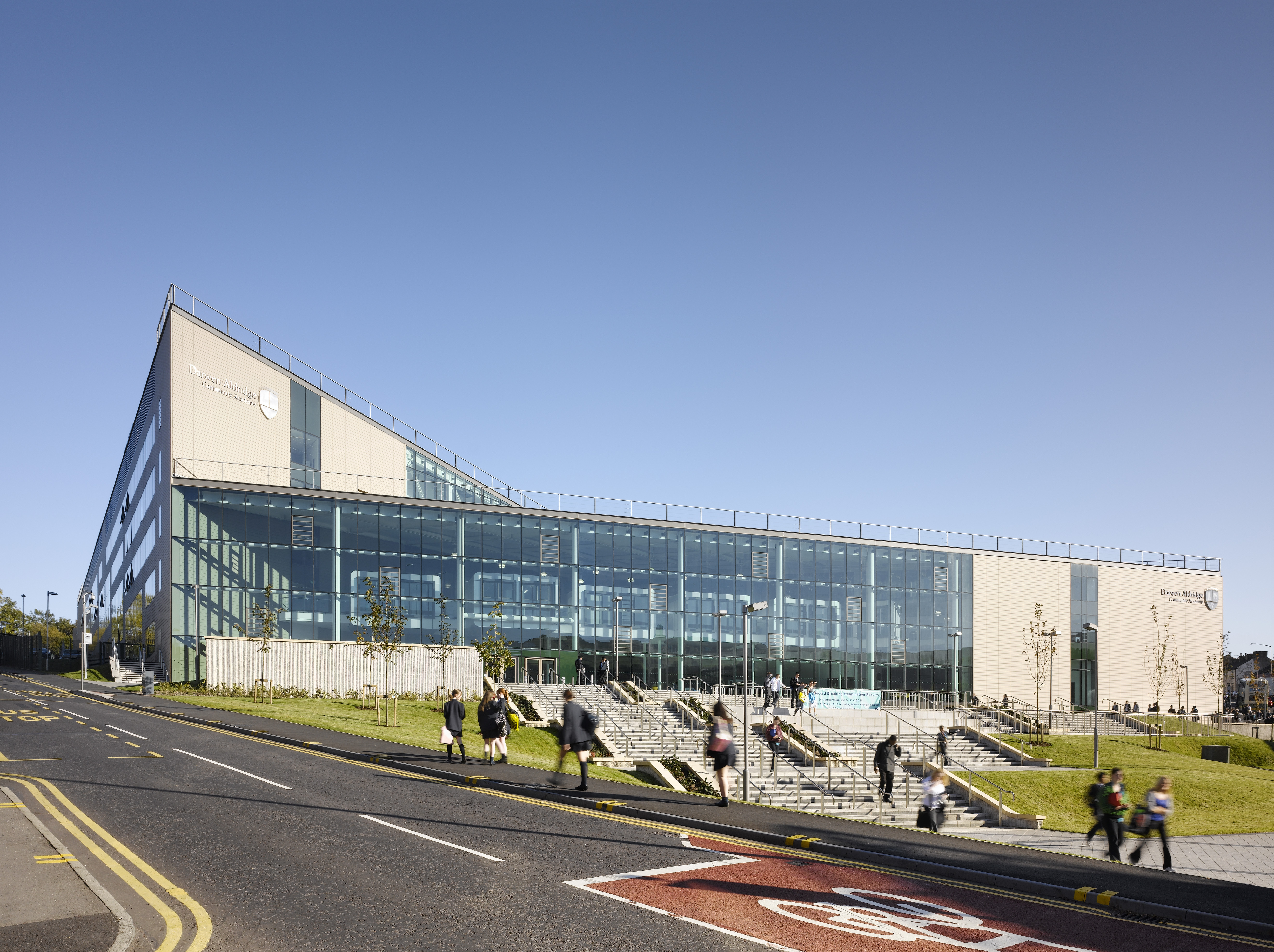 Darwen Aldridge Community Academy, as seen from the bottom on Sudell Road